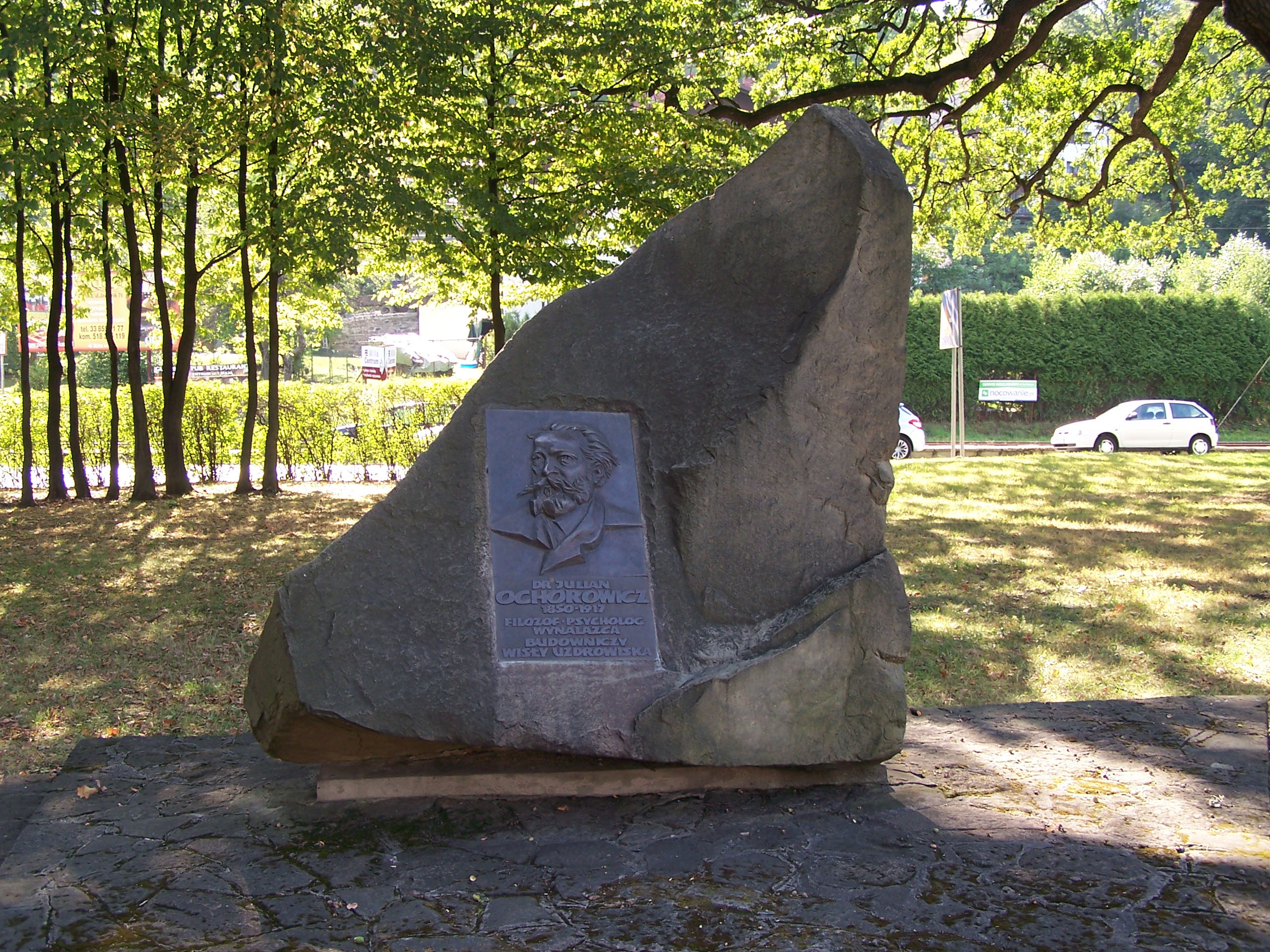 Memorial to doctor Julian Ochorowicz in Wisła, Poland